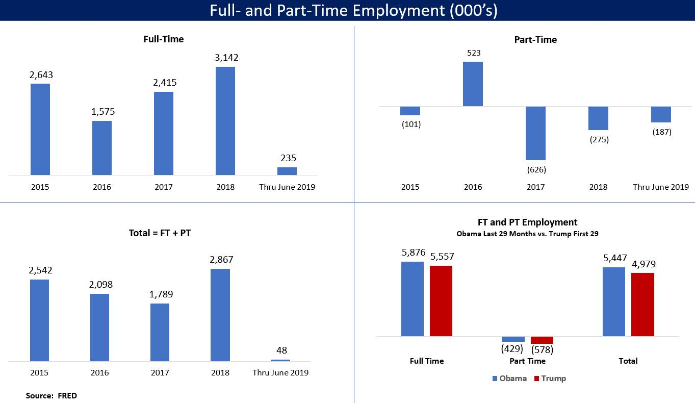 U.S. full- and part-time employment level changes 2015 to June 2019